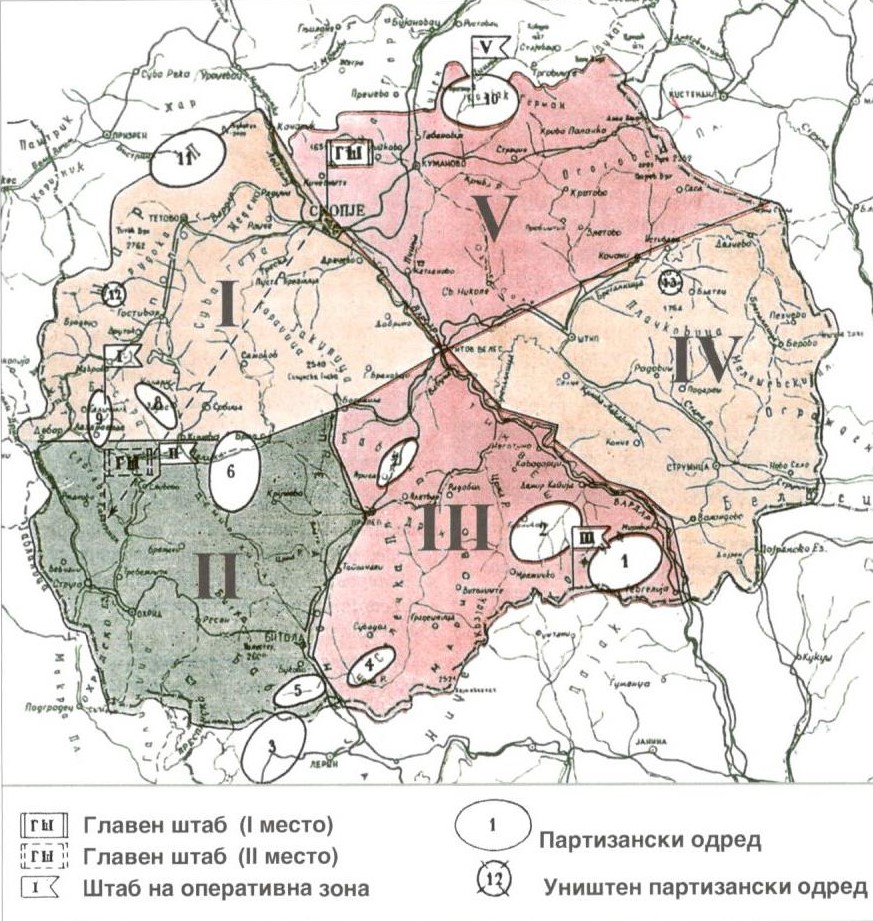 Operative zones of the Macedonian partisan freedom fighter's movement in 1943